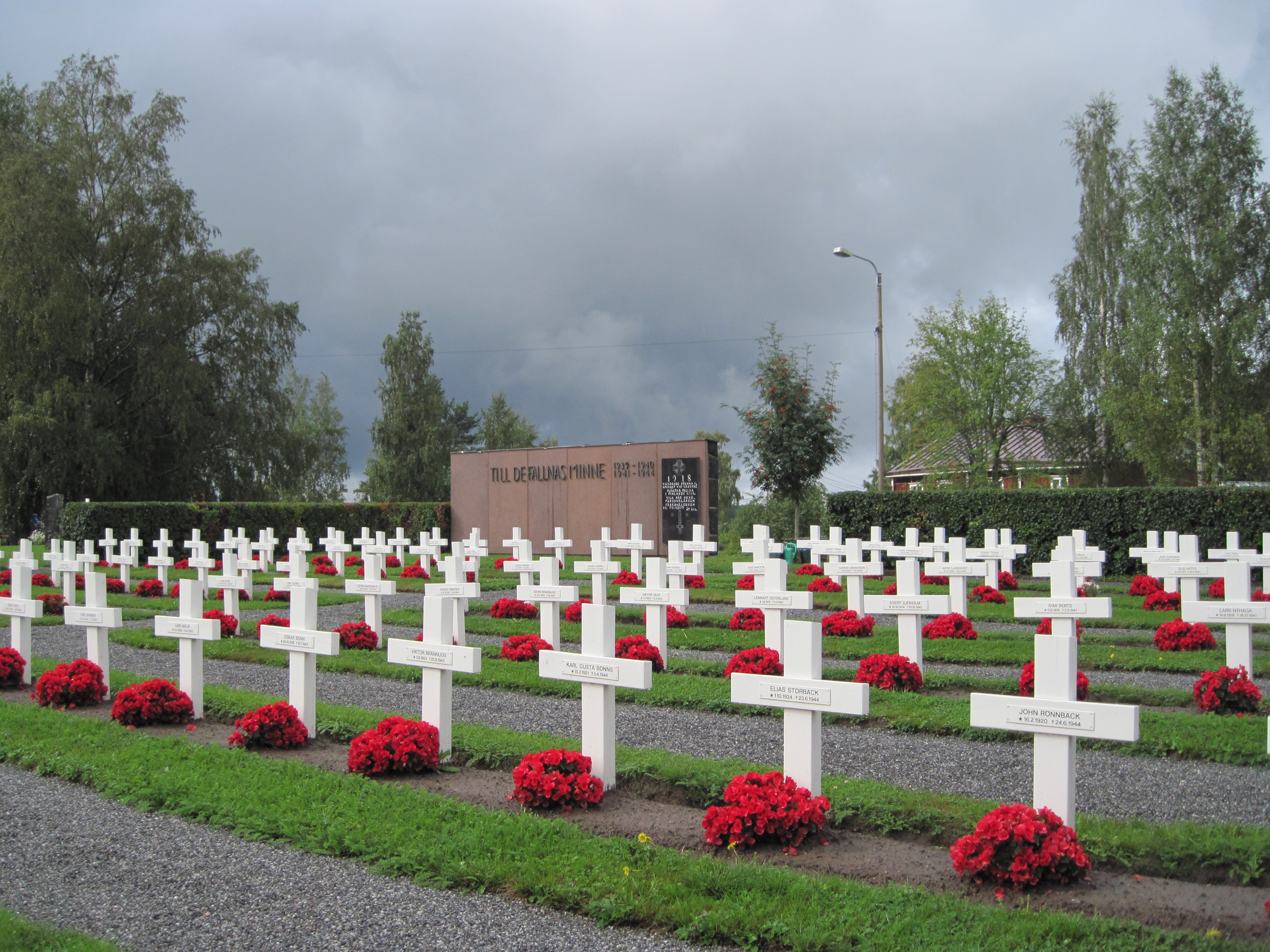 Military cemetary at church in Maalahti, Finland